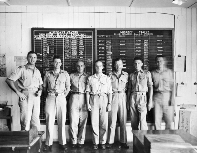 Informal group portrait of members No. 391 (Base) Squadron RAAF, standing in front of an air movements status board at the airbase in Iwakuni, Japan. Identified, left to right: O13189 Group Captain (Gp Capt) Alan Henry Burnard, RAAF, of Long Plains, SA; Finn; Broughton; Ryan; Hyde; Jurd; Tilley.